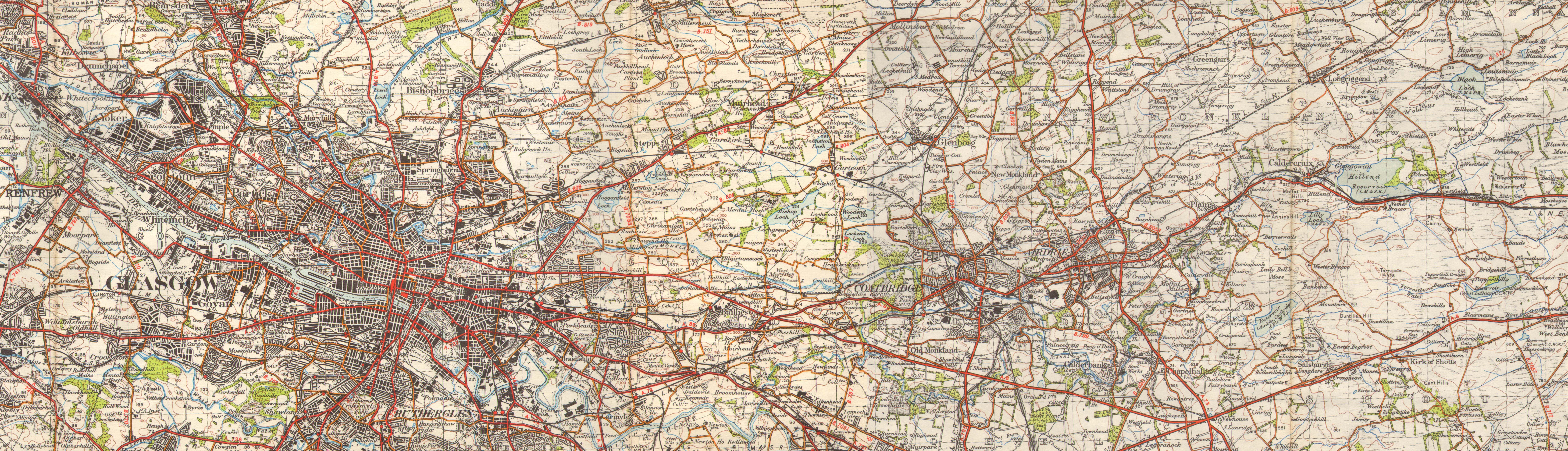 Composite one-inch map of Monkland Canal from Ordnance Survey Popular Edition of Scotland sheets 72-73 1945-47